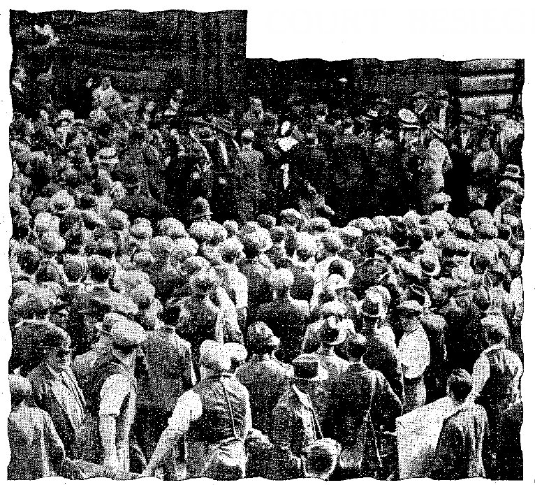 Outside Bow Street Magistrates Court, 28 August 1934. Caravan Club case.